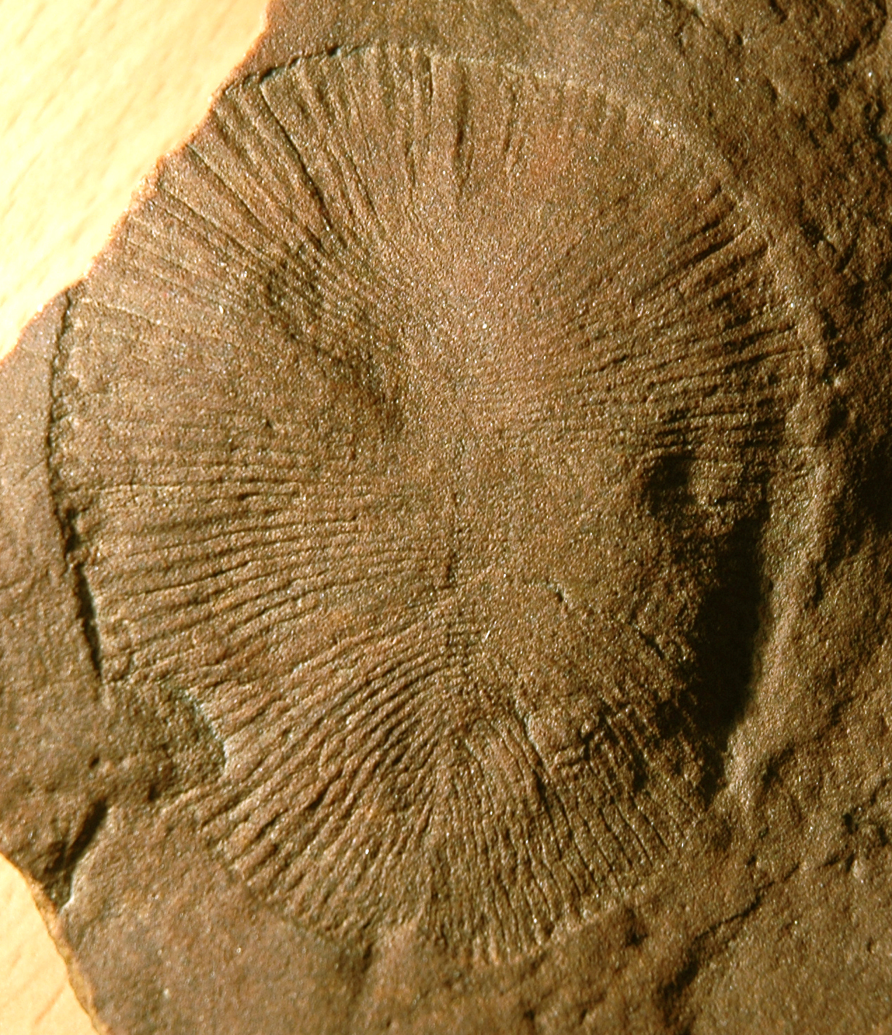 Dickinsonia costata Sprigg, 1947 in quartzose sandstone from the Precambrian of Australia. (SAM P13750/P40679, South Australian Museum, Adelaide, Australia) (~7.7 cm long) Soft-bodied macroscopic fossils have long been known from upper Neoproterozoic (Ediacaran) rocks, but they continue to generate much excitement among geologists. Biologic interpretations of Ediacaran organisms have been all over the map. Many Ediacaran fossils appear to be animals, but some paleontologists have interpreted them as lichens or giant protists or members of an extinct kingdom. One of the quintessential examples of an Ediacaran fossil is Dickinsonia. Prima facie, it appears bilaterally symmetrical, but it does have subtle asymmetry. It has the general appearance of a flattened worm with a stretched pancake body. This Dickinsonia specimen is from the Flinders Ranges of South Australia, one of the world’s classic localities for Ediacaran fossils. As do most Ediacarans, Dickinsonia displays soft-part preservation in a matrix of clean, quartzose sandstone. Stratigraphy: Ediacara Member, Rawnsley Quartzite, near-uppermost Neoproterozoic Locality: Flinders Ranges, South Australia